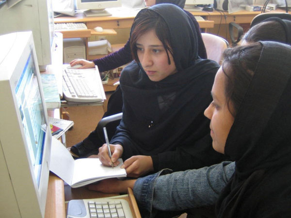 Two Afghan students from Lycee Maryam discuss traditional stories on the online forum. Relief International-Schools Online staff in Kabul set up of a Global Connections program, including ISP options. State Department photo